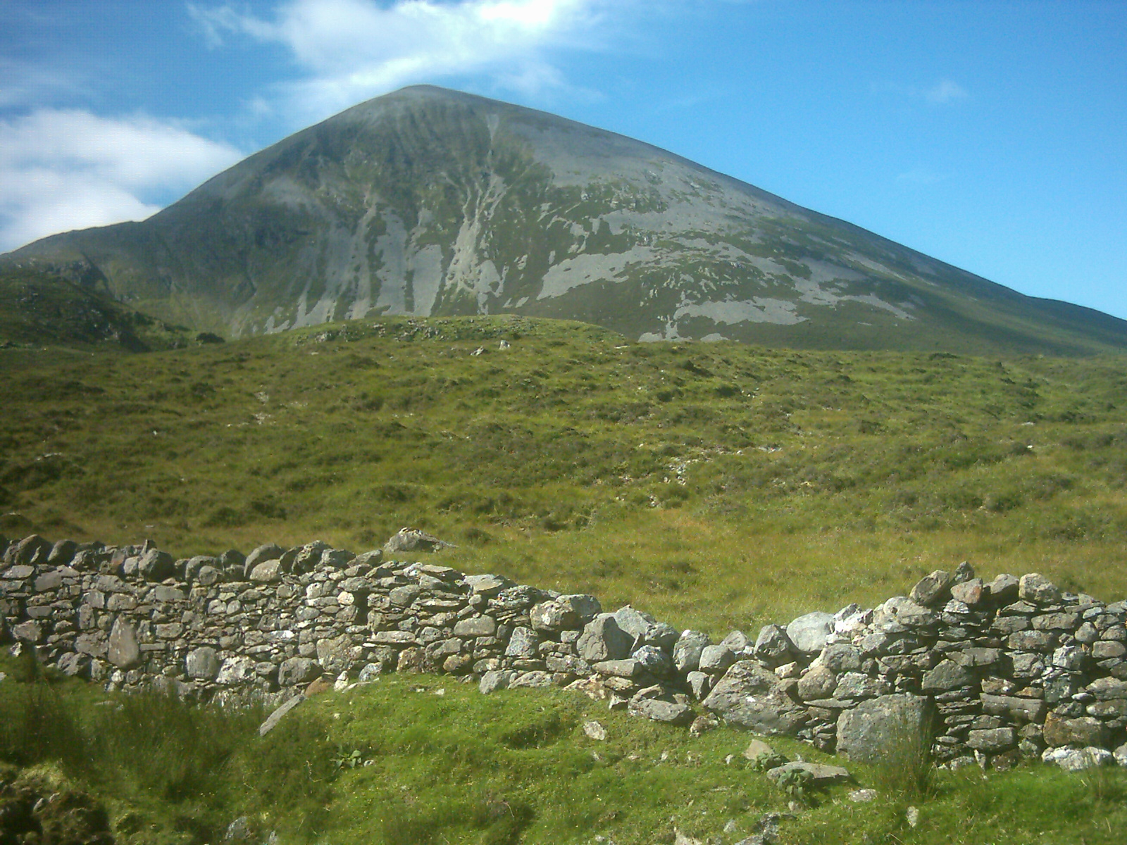 The holy mountain Croagh Patrick, County Mayo, Republic of Ireland